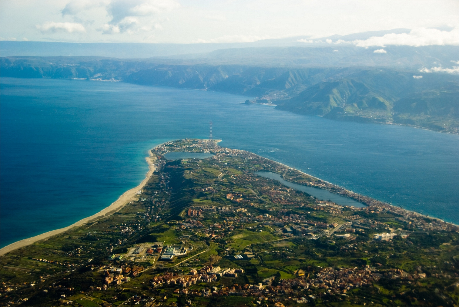 Map it: Google Earth | Street | Satellite | Hybrid | Nautical